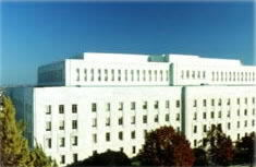 Image of the John Adams Building taken from the webpage of the Library of Congress: (